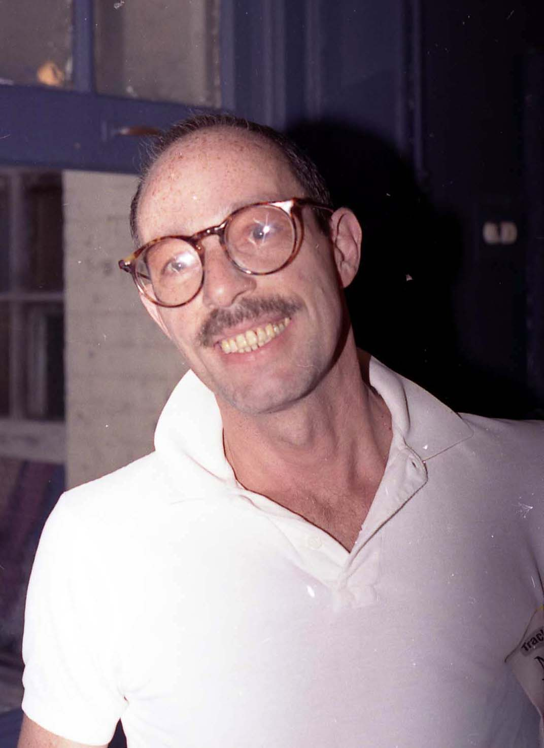 Vito Russo (1946-1990) on June 28 1989.